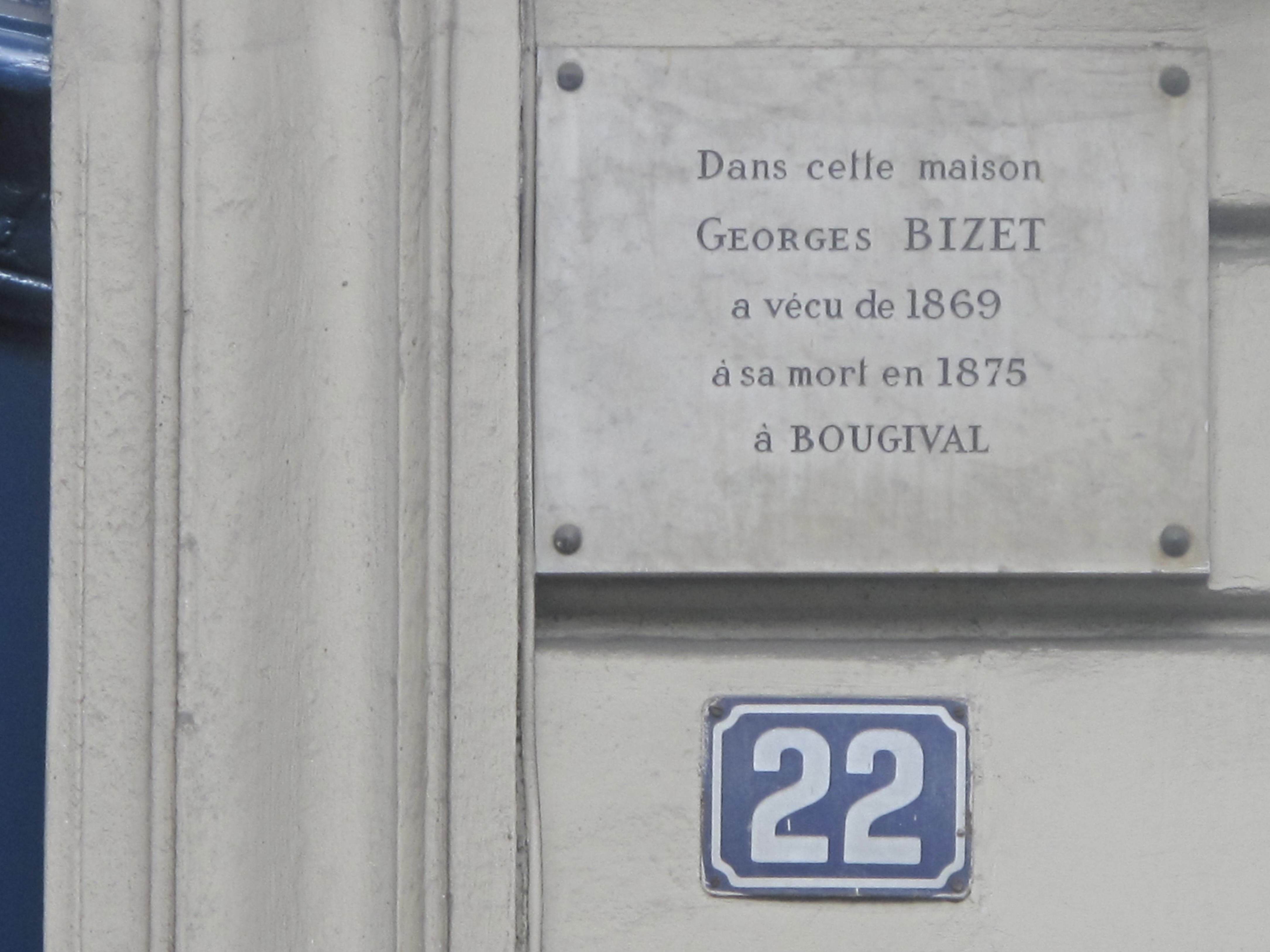 Plaque at the 22 rue de Douai (Hôtel Halévy), Paris 9th arr. where Georges Bizet (husband of Geneviève Halévy) composed the opera Carmen, libretto by Meilhac and Halévy.)